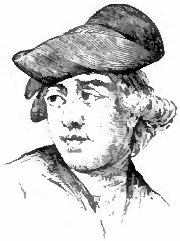 Portrait drawing of American Revolutionary War Continental Army General Charles Lee